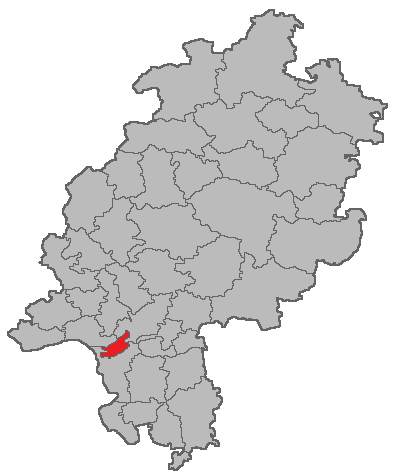 Map of the district court Rüsselsheim in Hesse